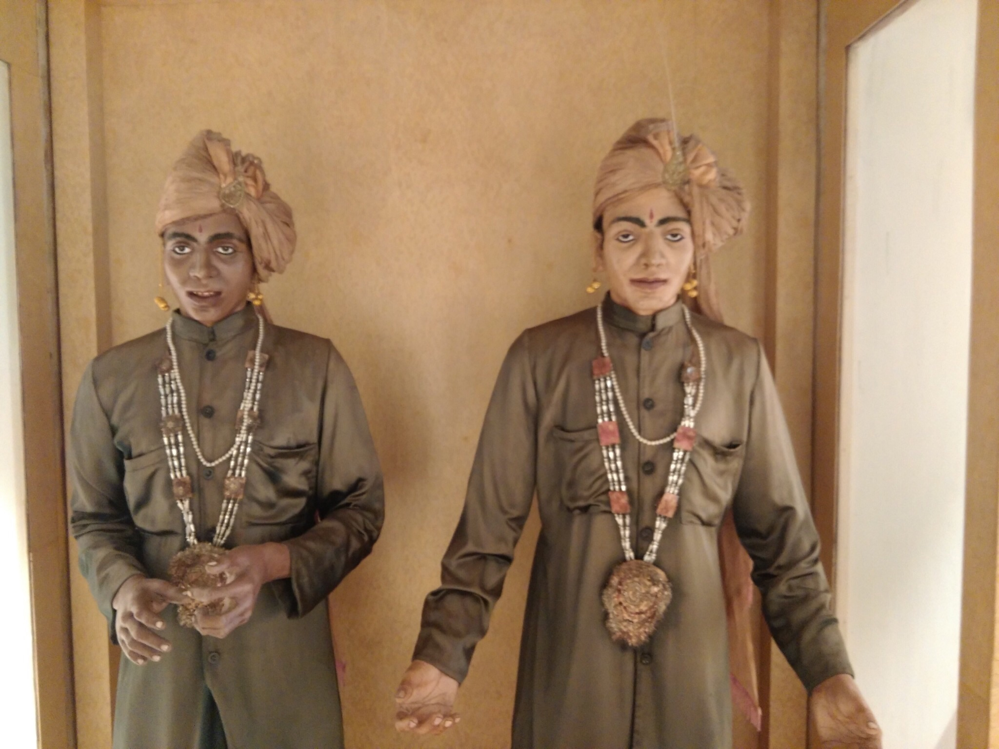 The traditional costume in which Odisha's street art of Pala is performed. Image taken at the Odisha State Museum, Bhubaneshwar.